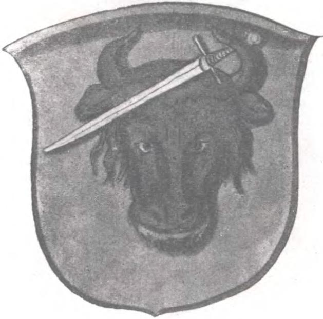 Coat of arms Pomian from Stemmata polonica